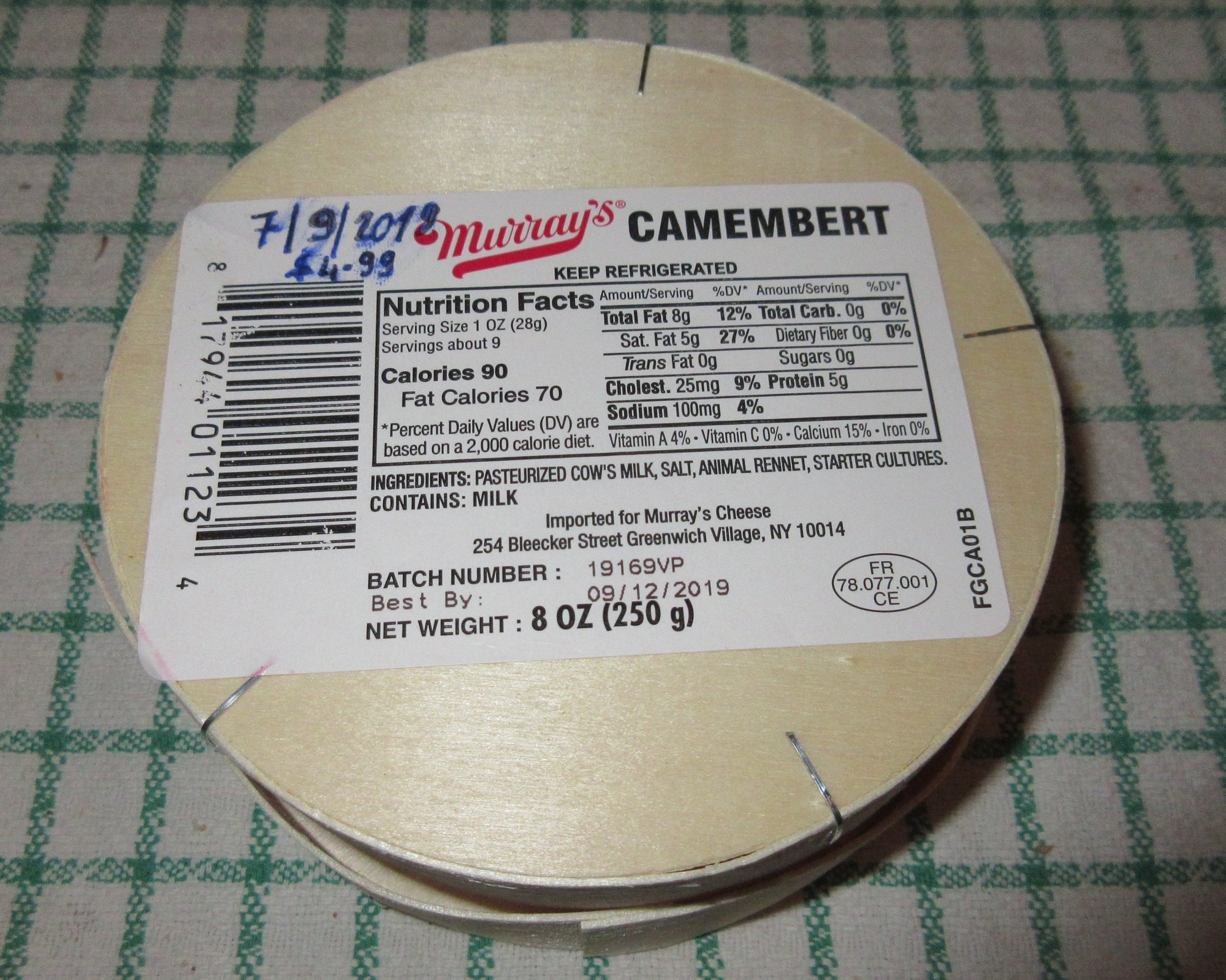 Murray's Camembert ingredients: pasteurized cow's milk, salt, animal rennet, starter cultures calories 90 - fat calories 70 - serving size 1oz net weight : 8oz (250g) 8-17944-01123-4 FR-78.077.001-CE (farmer La Tremblaye at La Boissière-Ecole - Yvelines - France)